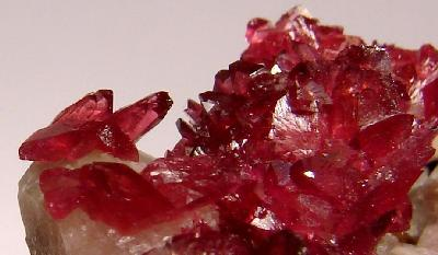 Wendwilsonite Locality: Aghbar Mine (Arhbar Mine), Aghbar, Bou Azzer District, Tazenakht, Ouarzazate Province, Souss-Massa-Draâ Region, Morocco (Locality at ) Size: miniature, 4.9 x 2.2 x 1.3 cm Wendwilsonite World-class miniature richly covered in deep-red lustrous elongated crystals that range up to .5 cm in length. Many of the crystals have a habit that can be described as pointy rice grains. Some tend to be more bladed, but all are beautiful to look at. This is WENDELL WILSON'S WENDWILSONITE! It is to this day the best miniature he or I have seen, for sharp, gemmy, isolated crystals on contrasting matrix. This is a premium miniature.